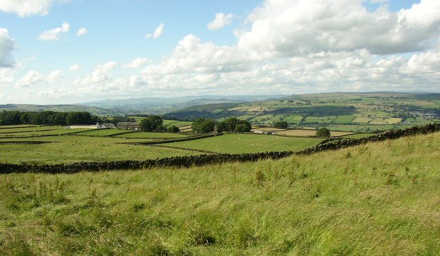 View of Airedale From Redcar Lane, Keighley. Flasby Fell is prominent in the centre, and the furthest hills must be above Malham.